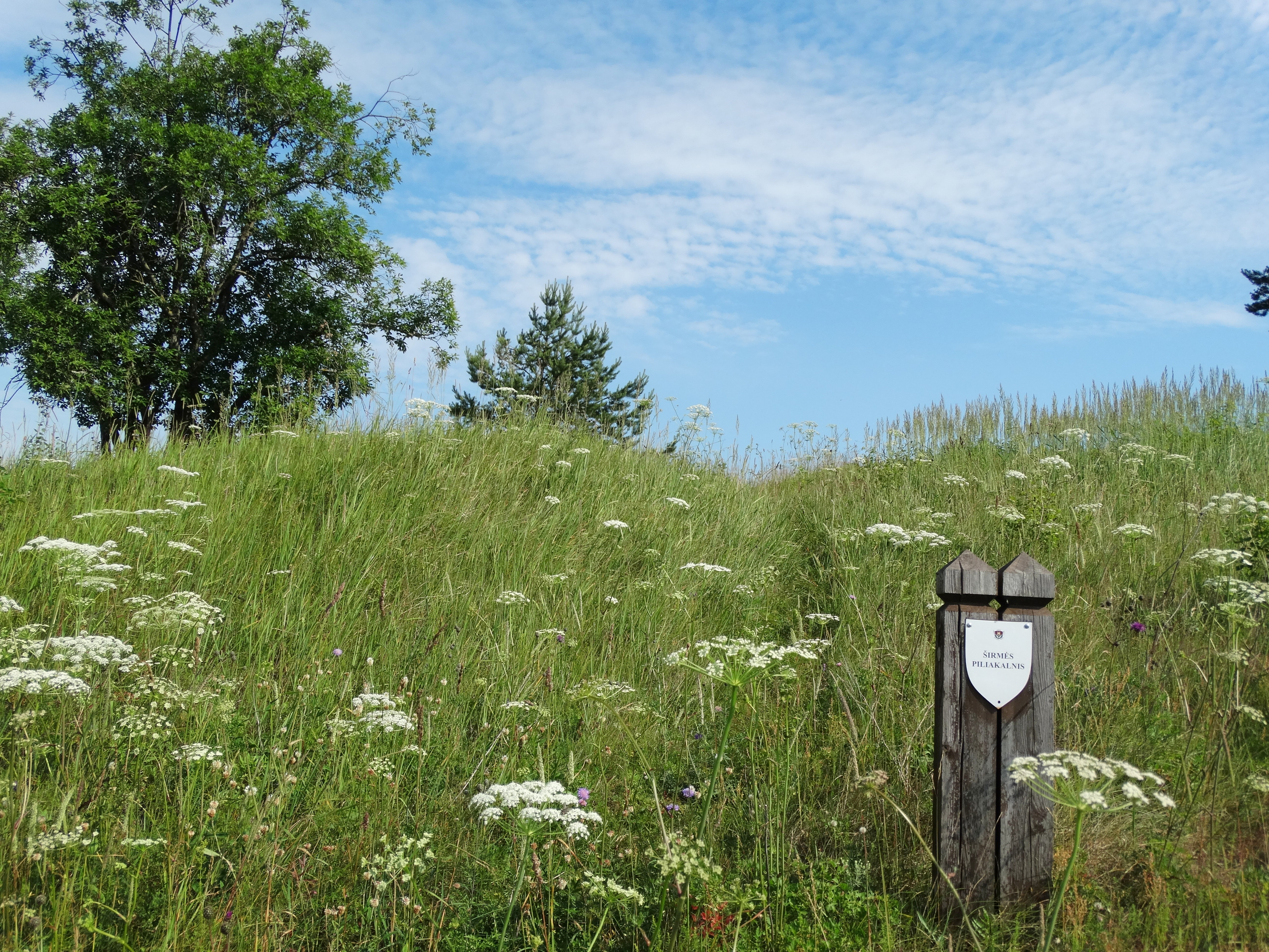 Širmė hill, Janapolė, Telšiai District, Lithuania